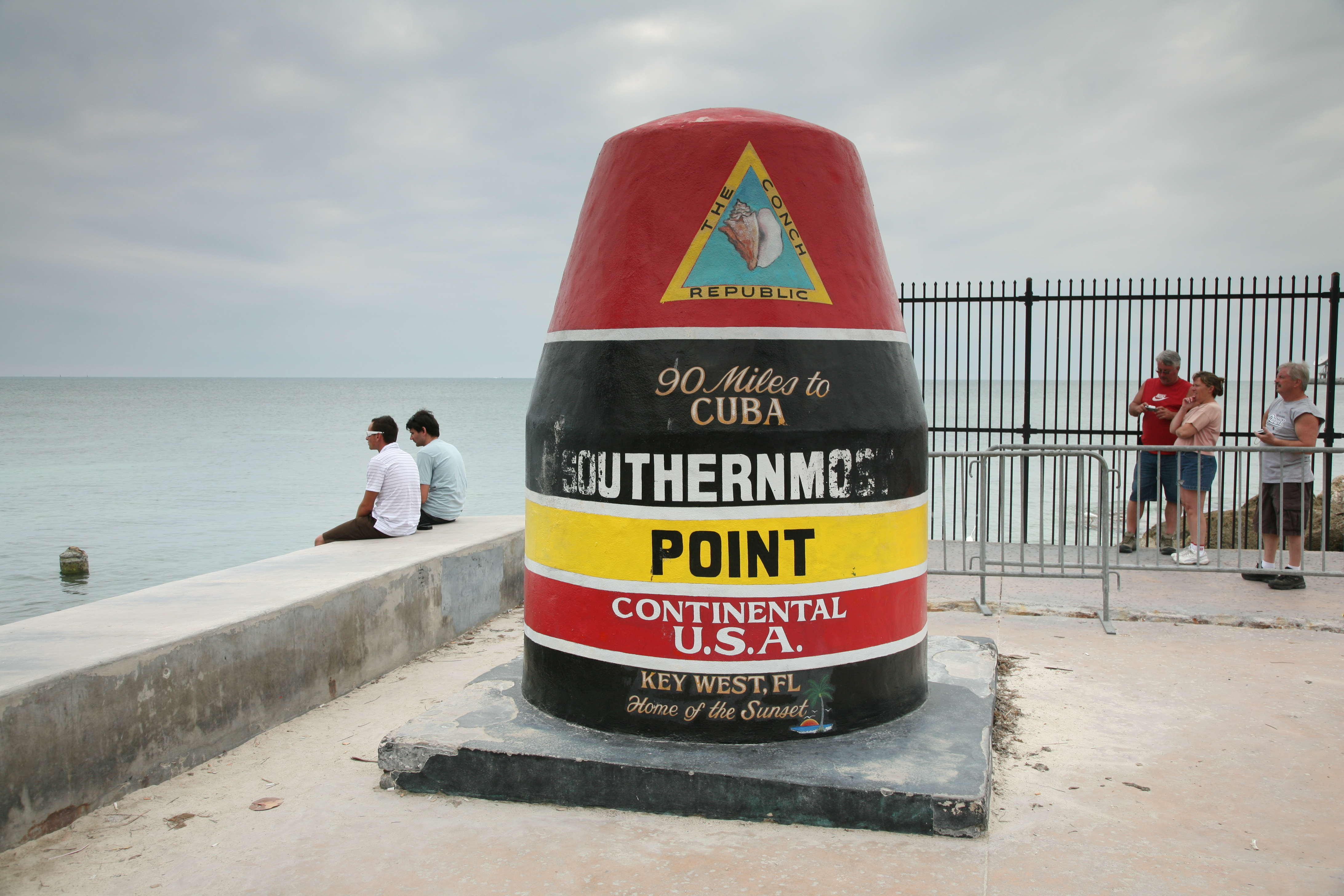 90mi to Cuba marker at the so called southernmost point of the continental United States, in Key West, Florida.